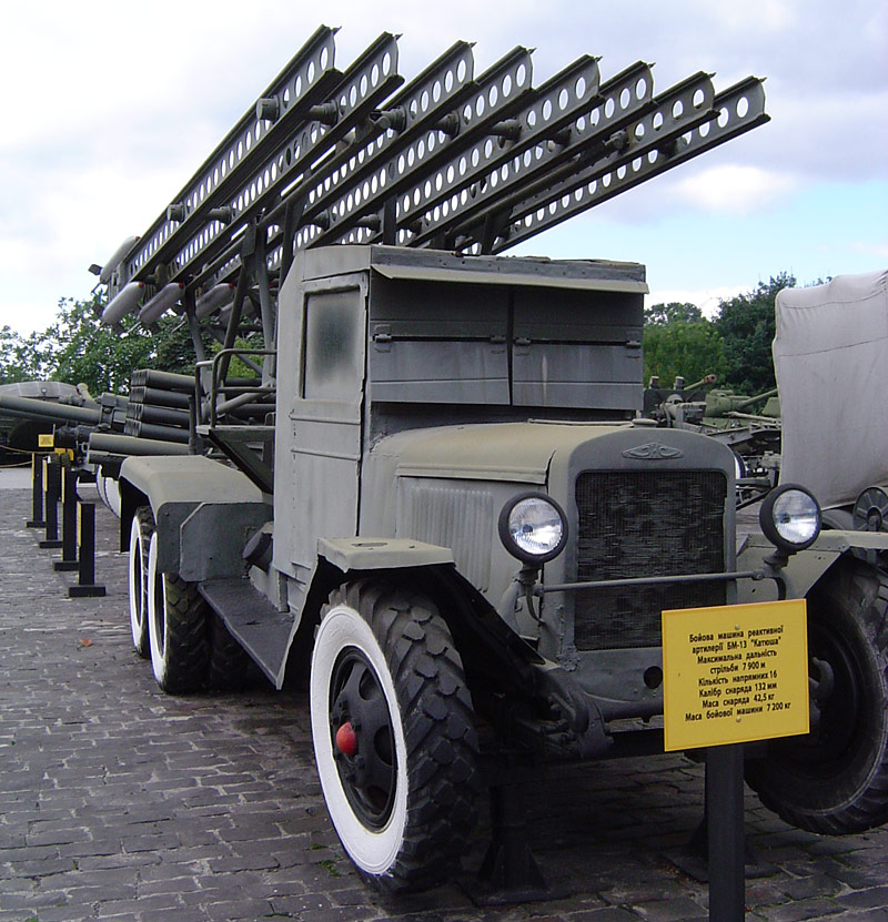 Katyusha rockets and launch vehicle, front view. On display near the Museum of the Great Patriotic War, Kiev, Ukraine.)